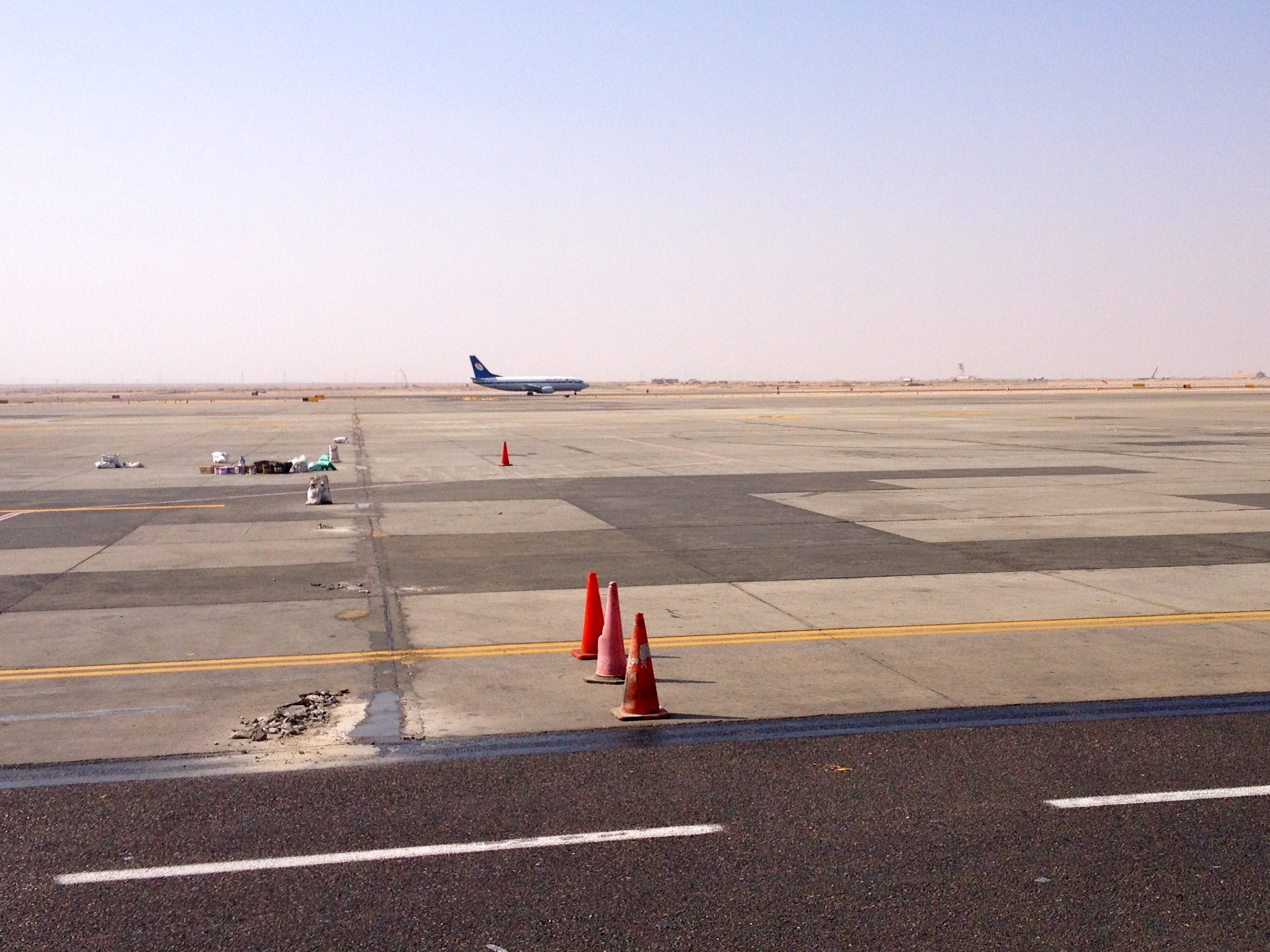 Hurghada International Airport, airstirp qualityLietuvių: Tarptautinis hurgados oro uostas, pakilimo tako vaizdas